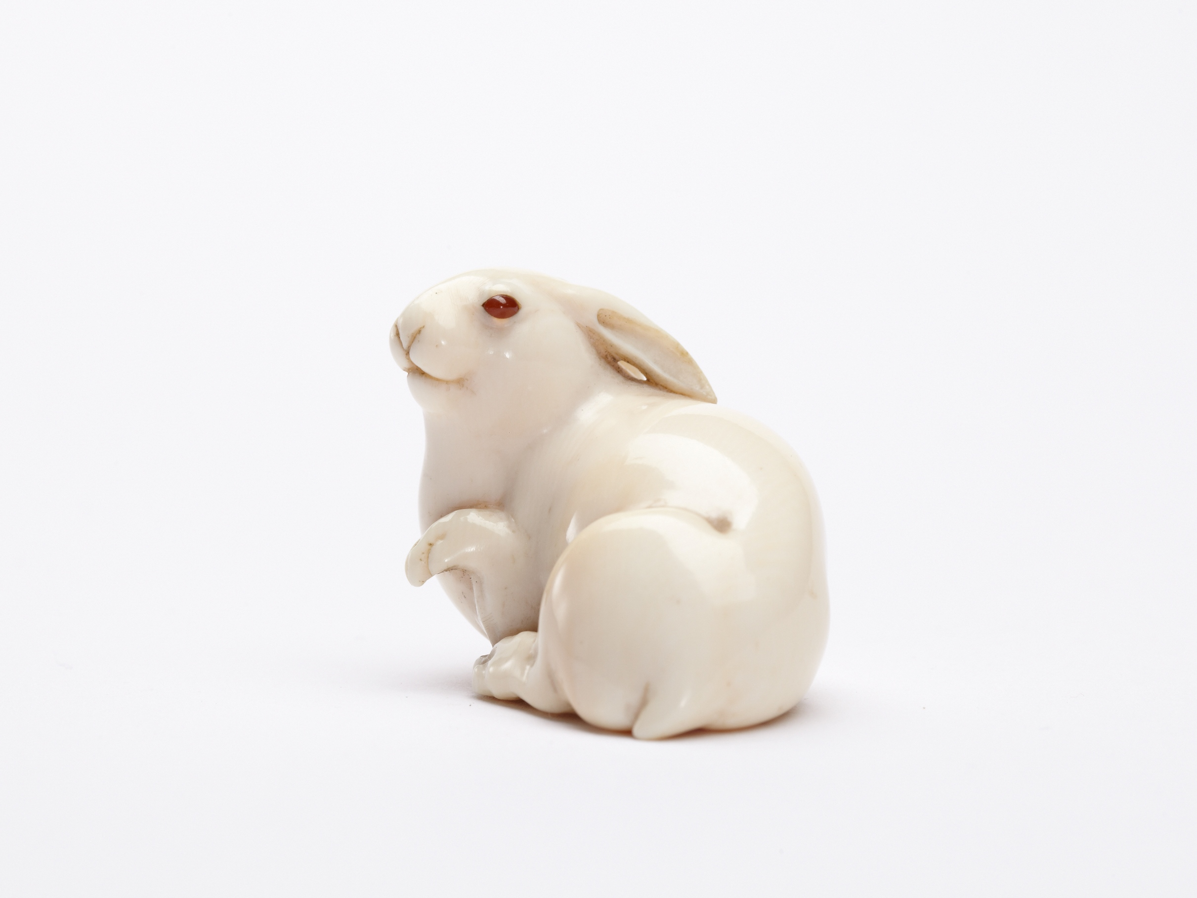 Ivory netsuke of the Hare with Amber Eyes, held in the collection of Edmund de Waal